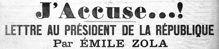 Title of Zola's J'Accuse...! article published jan 13 1898